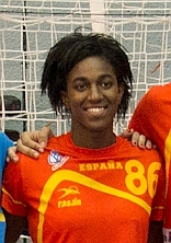 Alexandrina Cabral Barbosa